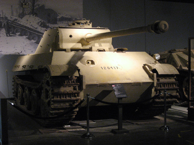 Panther II on display at the Patton Museum of Cavaley and Armor in Fort Knox, KY. The picture taken May 6, 2007. This particular vehicle was captured by U.S. troops at the MAN factory, turretless. A latewar Panther Ausf. G turret (instead of Schmalturm) was installed at the Aberdeen Proving Ground, after the testings.